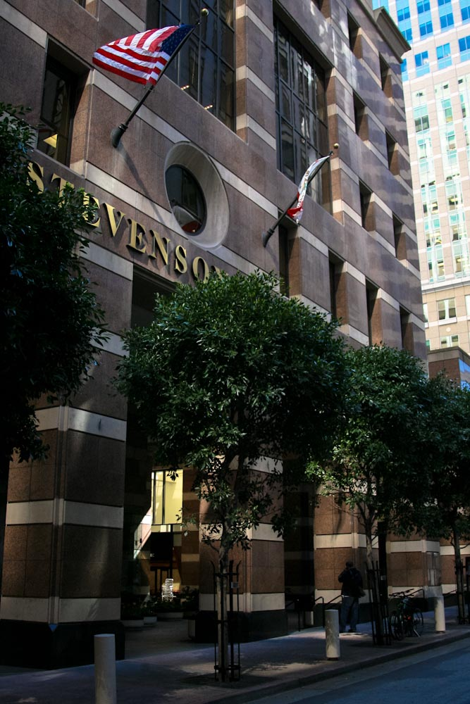 Stevenson Place high-rise office building in San Francisco, California.